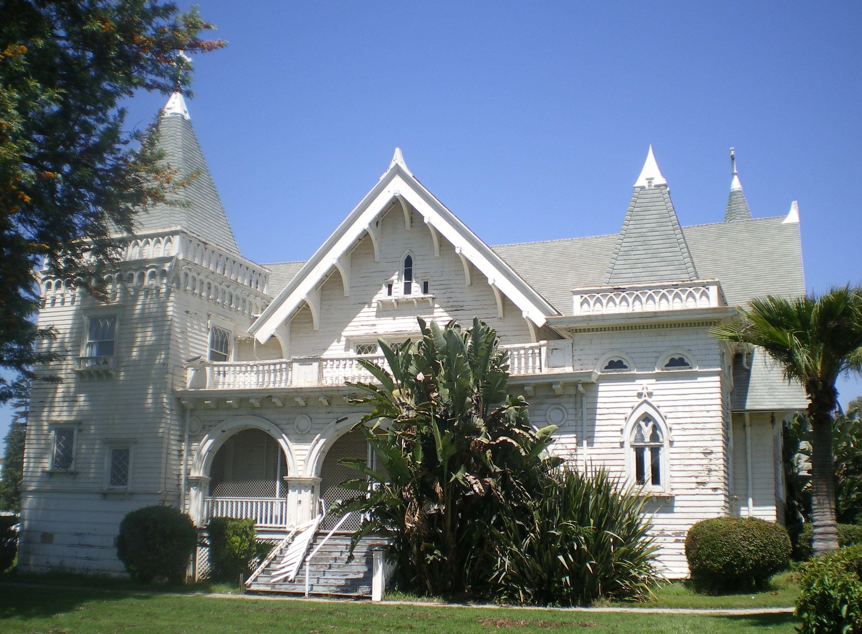 Wadsworth Chapel, Front View, West Los Angeles Veterans Complex, Los Angeles, California